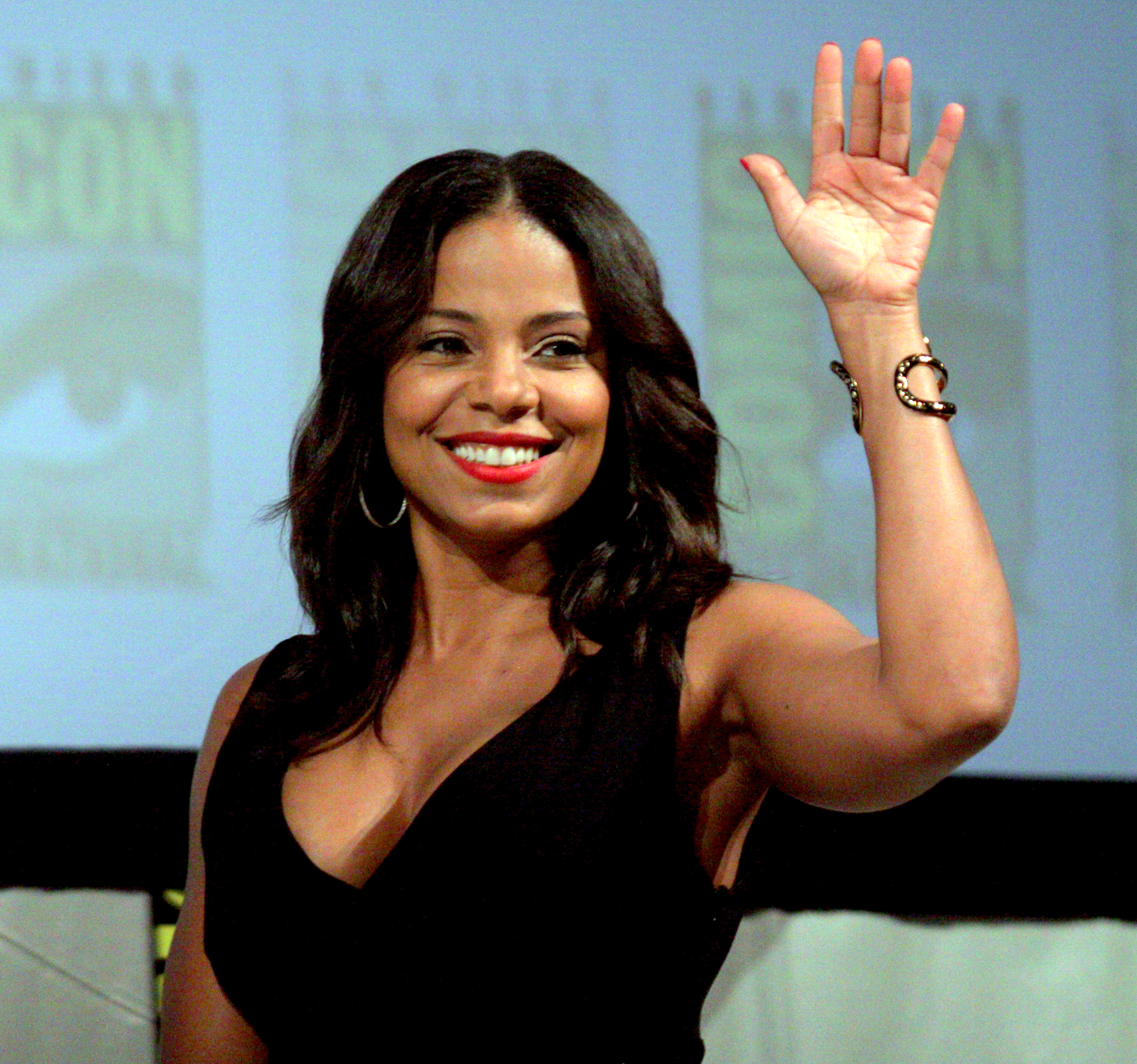 Sanaa Lathan at the 2011 San Diego Comic-Con.